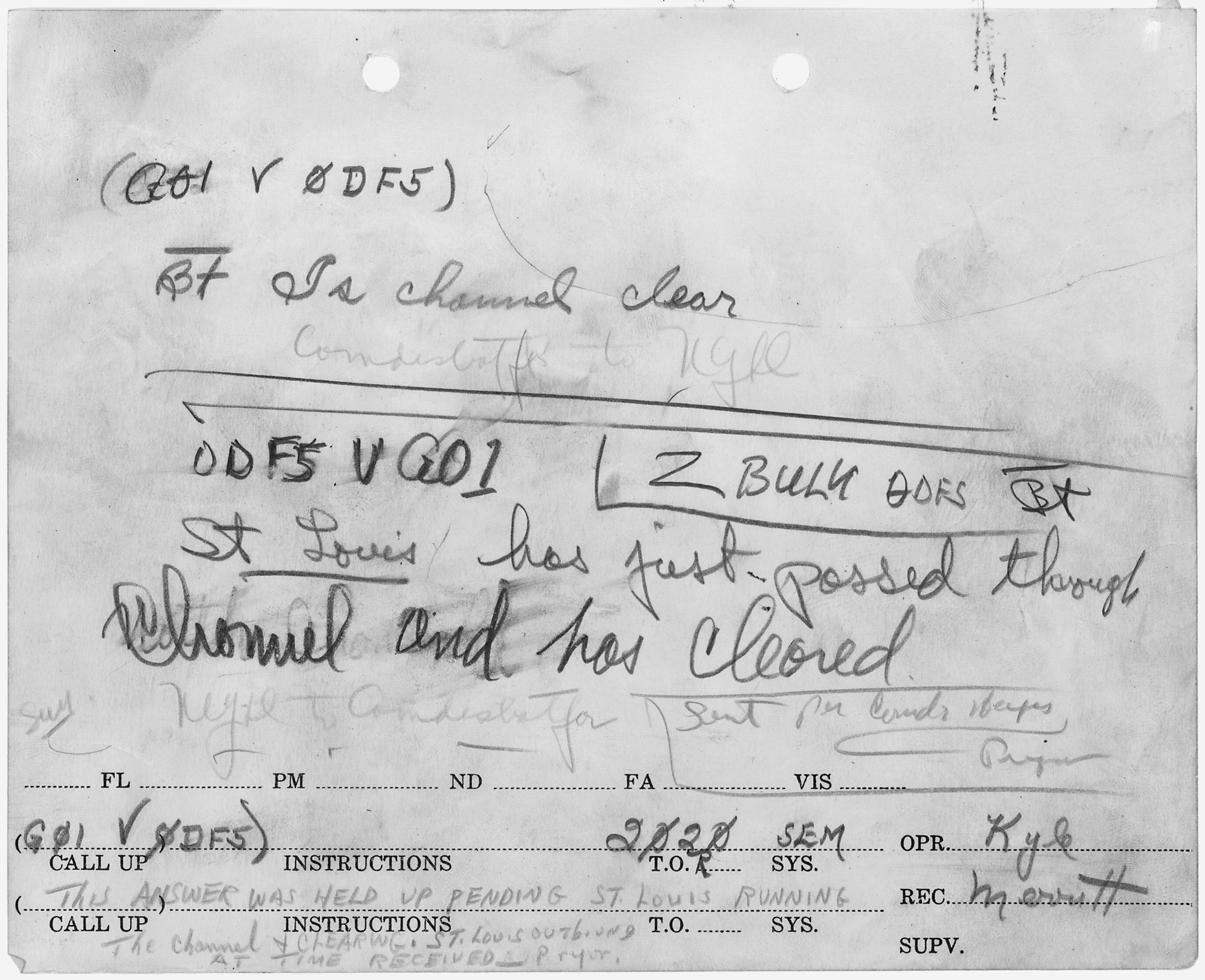 Scope and content: This message denotes the first US ship, USS ST LOUIS (CL49) to clear Pearl Harbor.